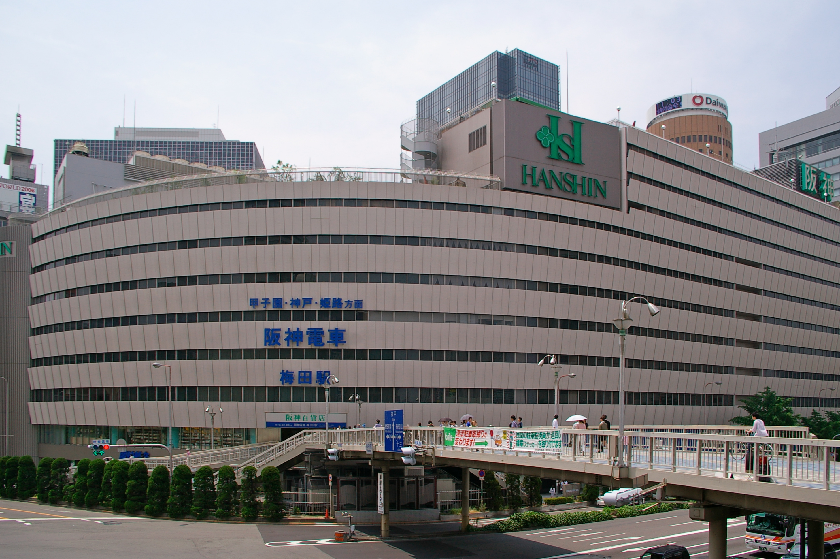 Photograph of Dai-Hanshin Building, the head store of Hanshin Department Store and Hanshin Electric Railway Umeda Station, in Kita-ku, Osaka, Osaka Prefecture, Japan.